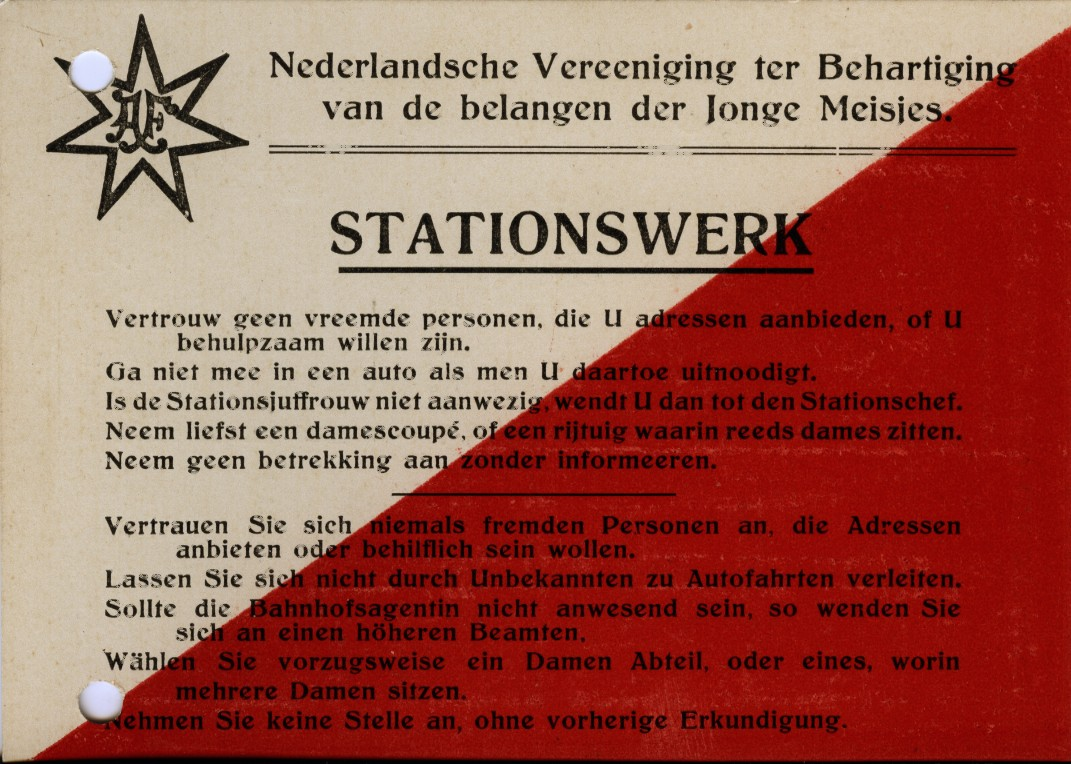 Guidelines for Young Girls. Dutch social work at railway stations.